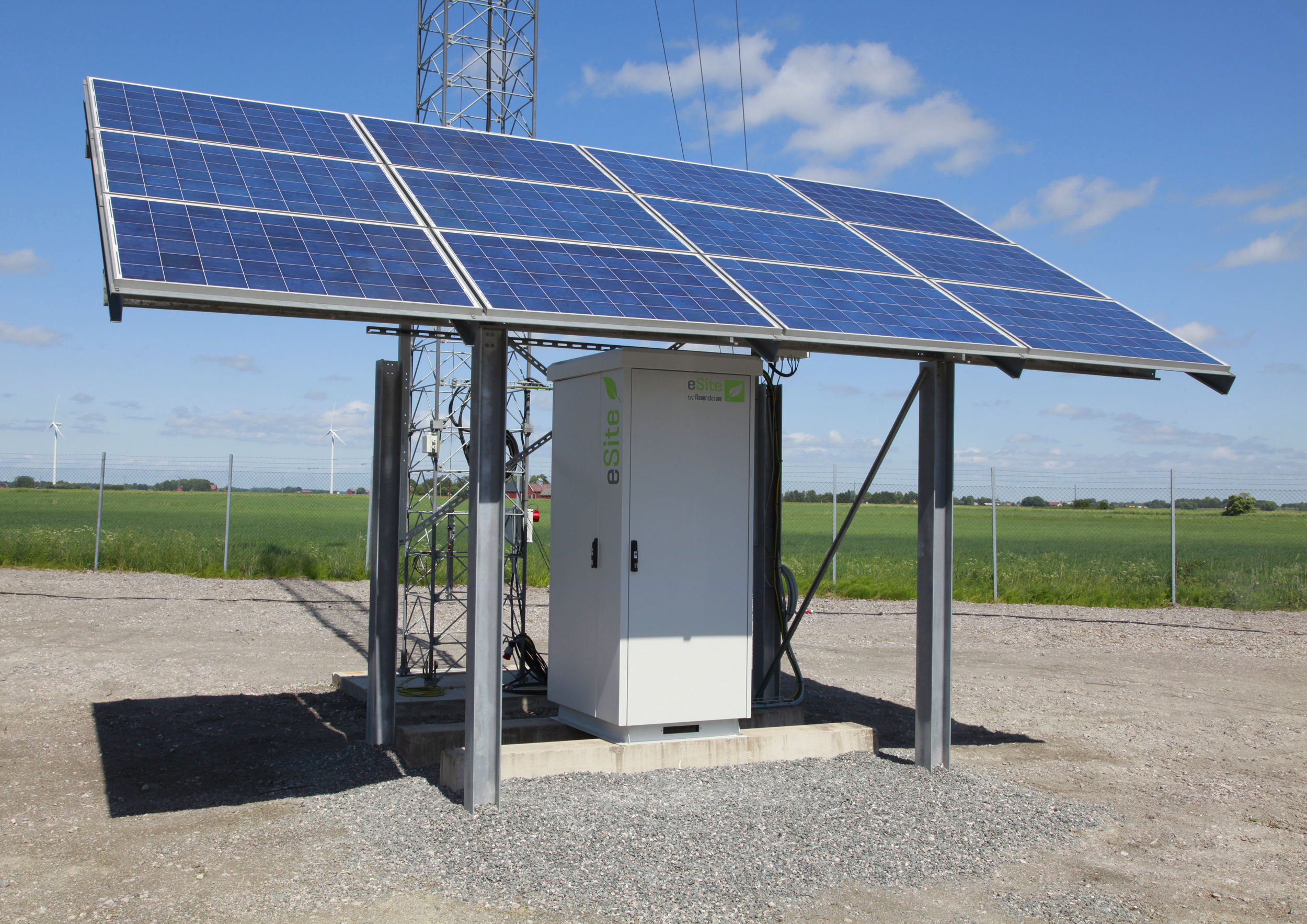 eSite, a hybrid power management system in Vara, Sweden.